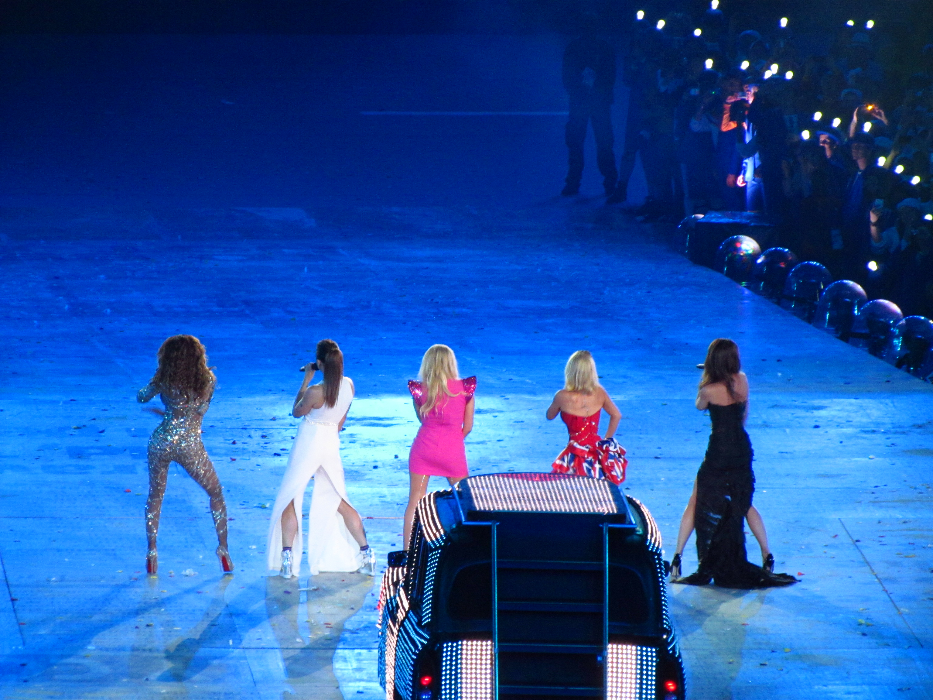 Spice Girls at London Olympics 2012